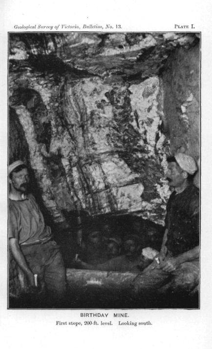 Victoria Geol. Survey 1904. Public Domain and in any case CR expired. URL